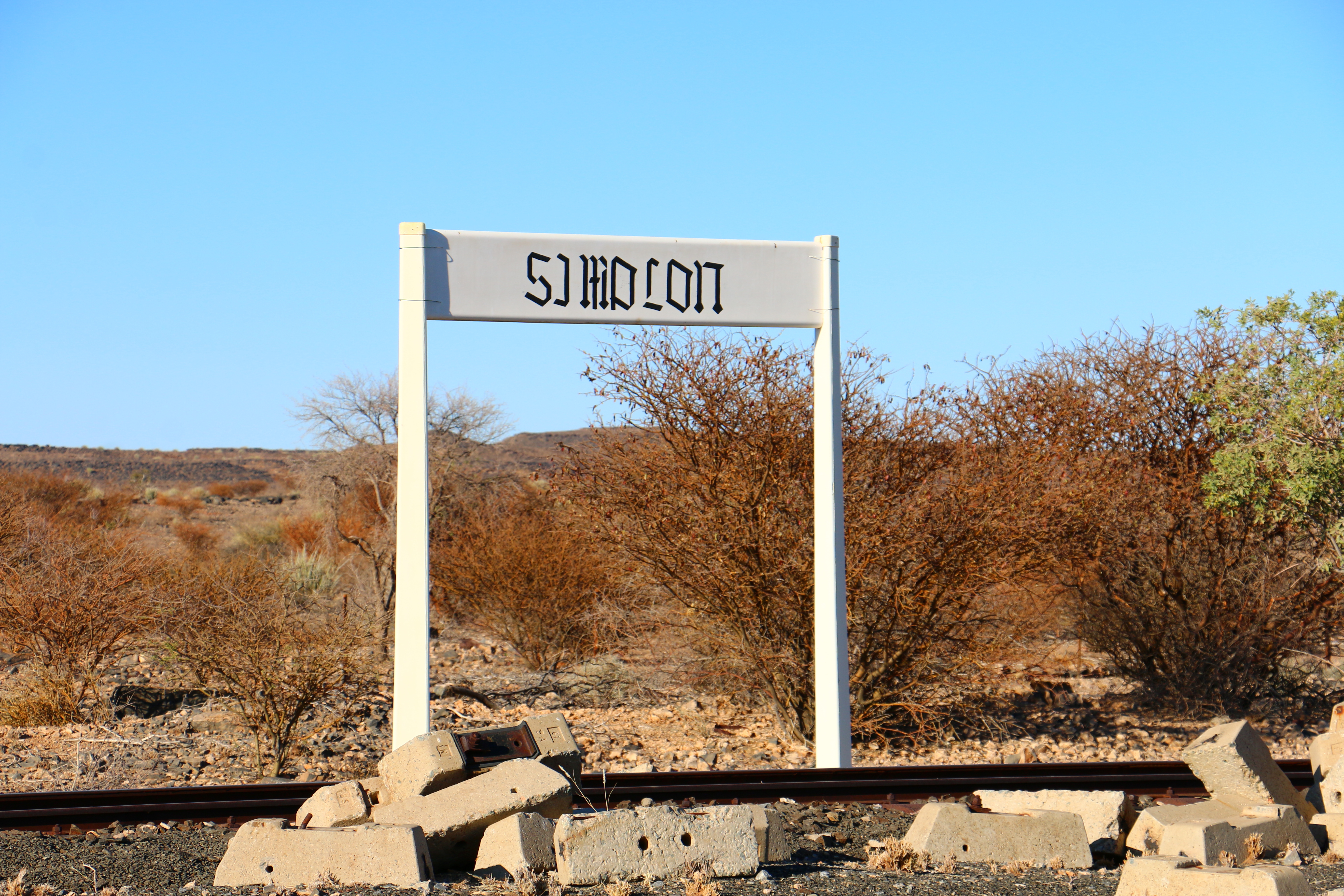 Railwaystation Simplon between Seeheim and Aus